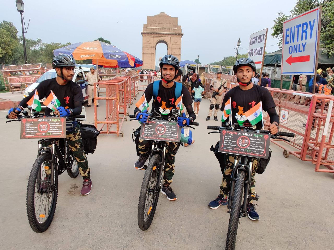 Piyush Monga with Ranchhod Dewasi and Yogesh Rawal on bicycle at India Gate